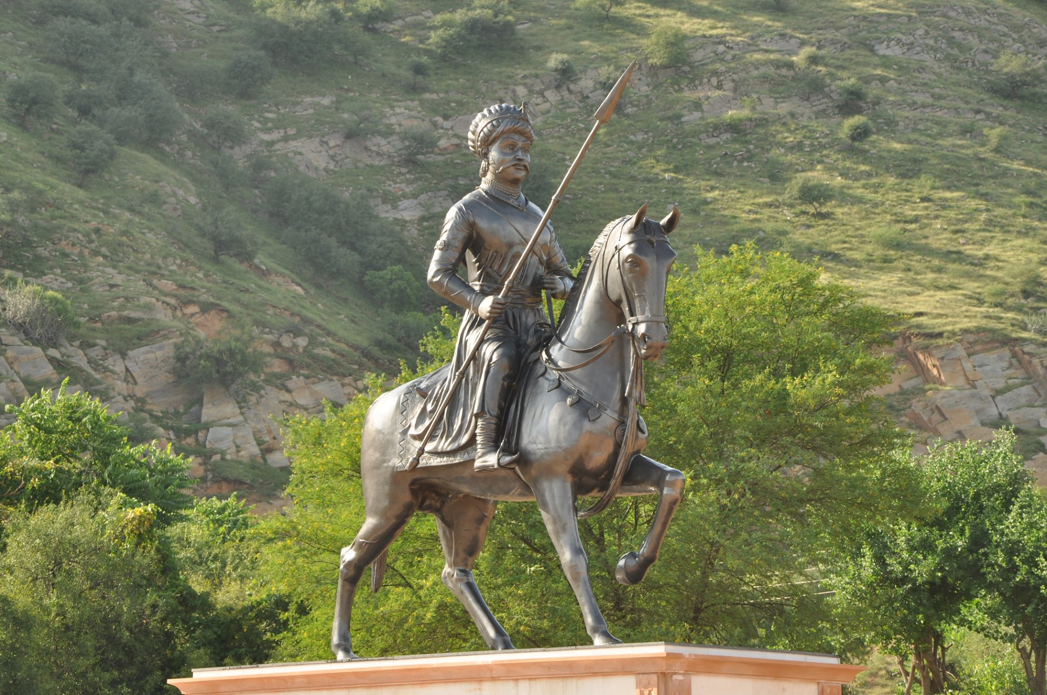 Maharao Shekha statue at village ralawata near jeenmata, district sikar, Rajasthan india